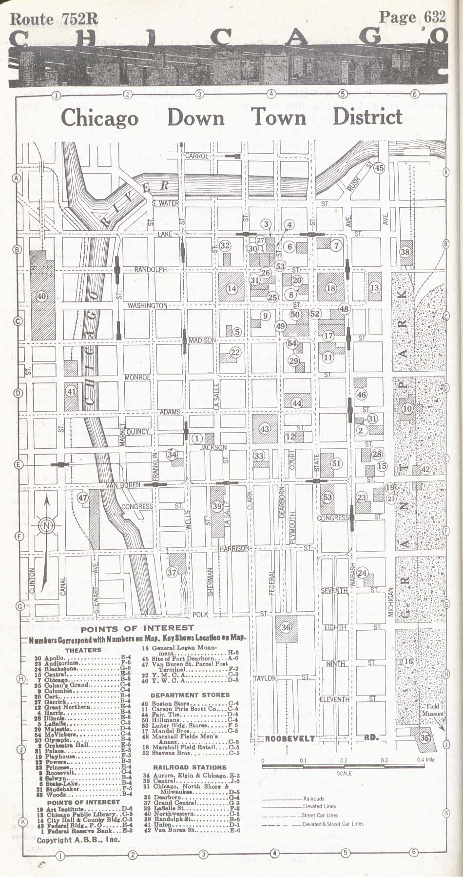 1917 map of downtown Chicago from the Automobile Blue Book.